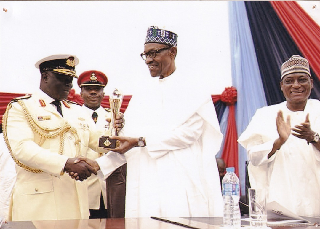 Rear Admiral Samuel Ilesanmi Alade, then the Commandant National Defence College Nigeria, presenting a token trophy to The President of the Federal Republic of Nigeria, HE Mohammadu Buhari at the College Graduation Ceremony in 2016.